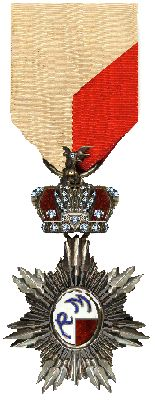 Order of Queen Naravalona III of Madagascar